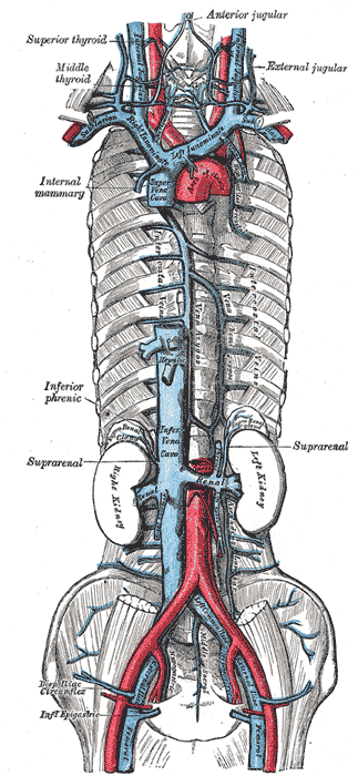 Vein